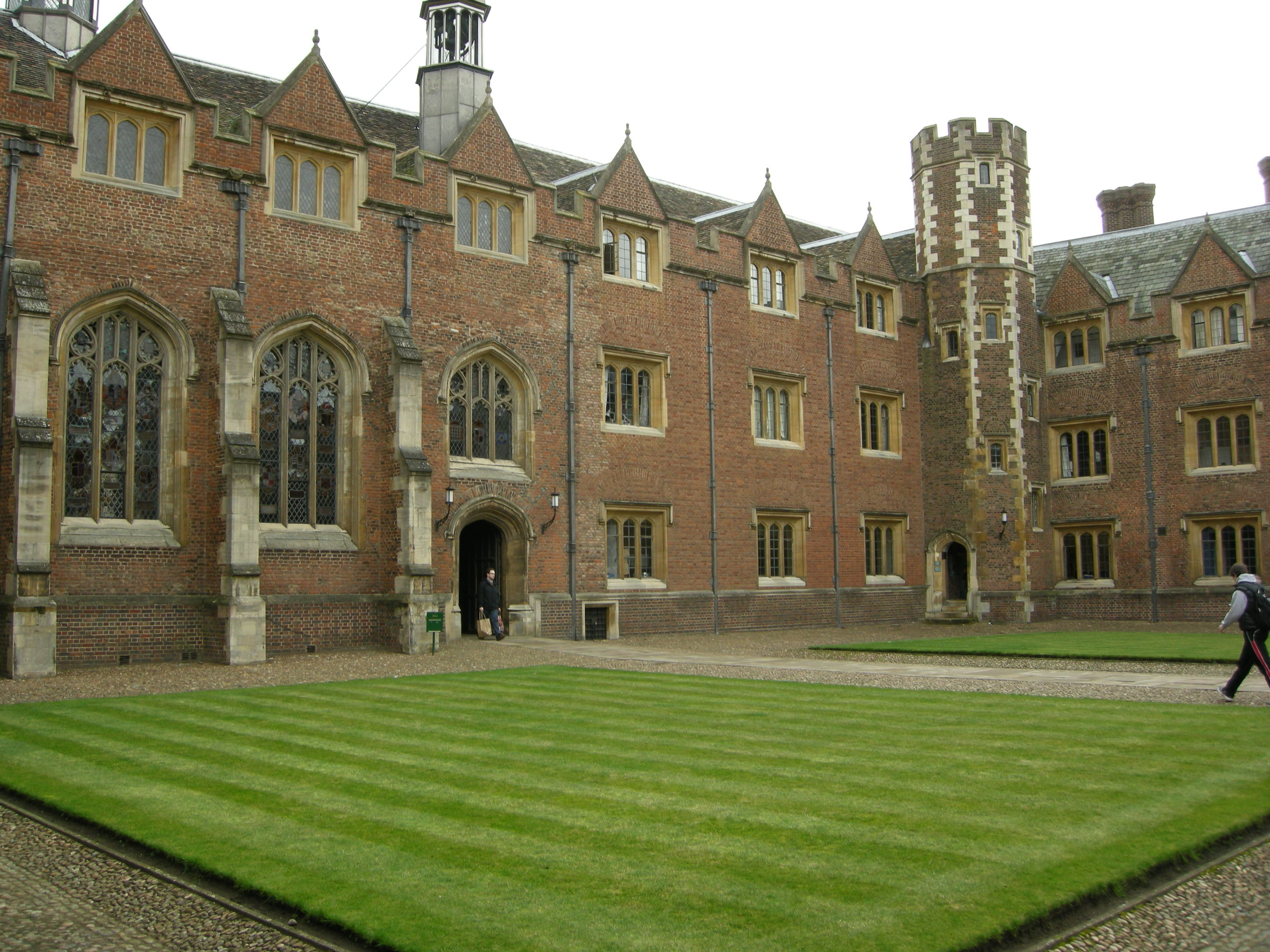 St John's College, Cambridge, second court